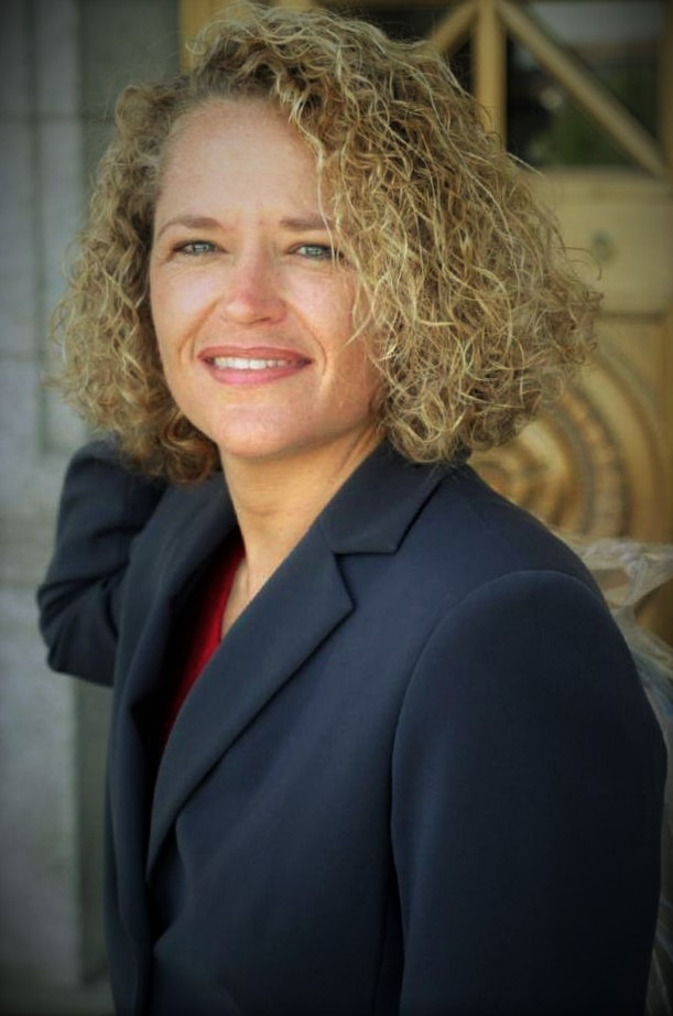 Salt Lake City Mayor-elect Jackie Biskupski (D)